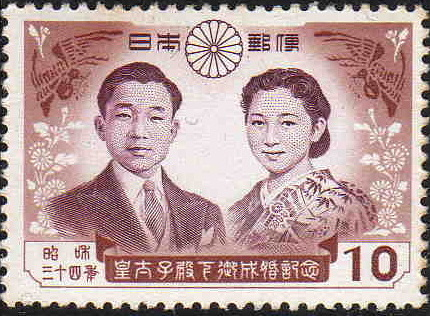 Wedding_of_Crown_Prince_Akihito_stamp_of_10Yen